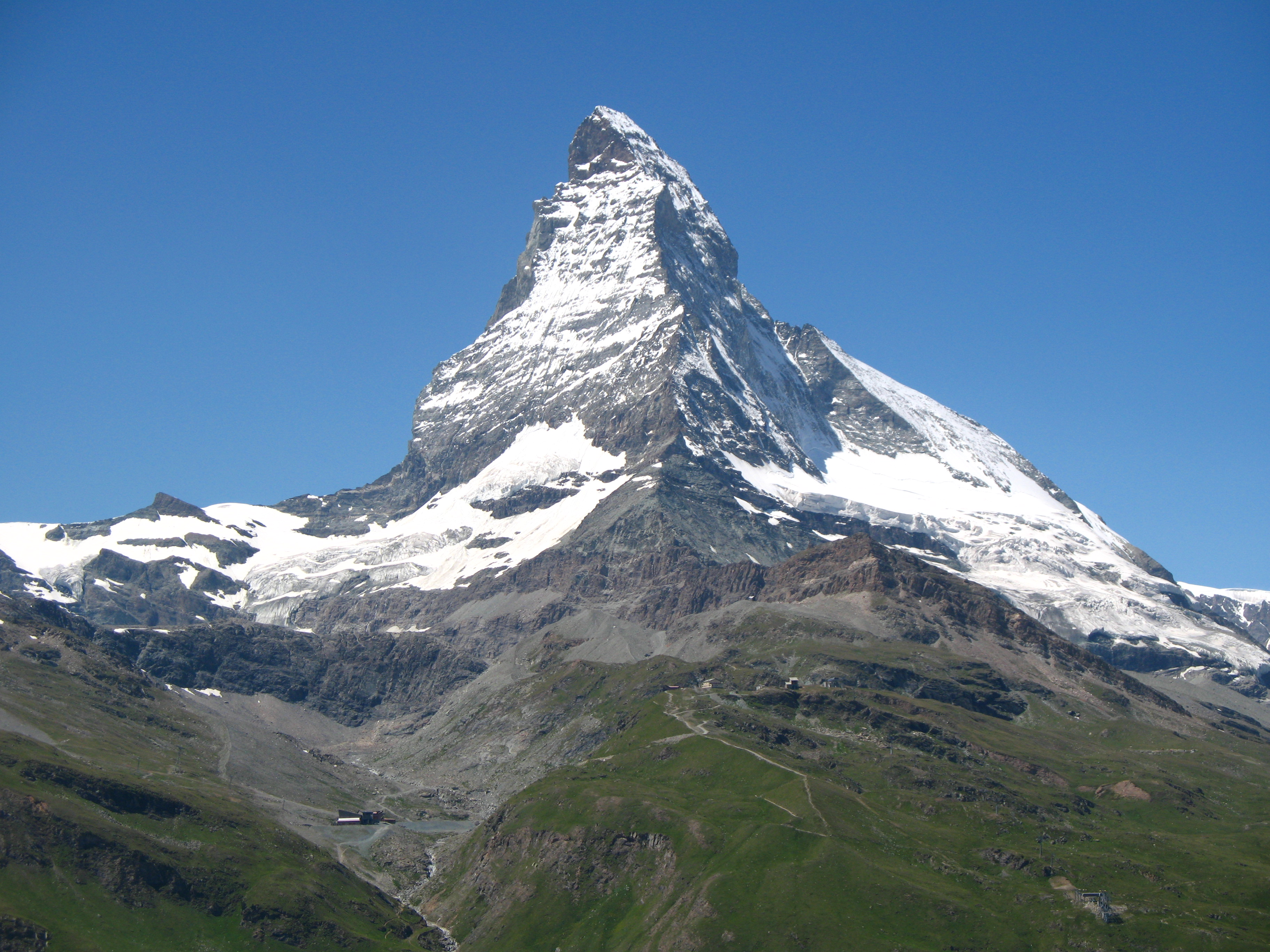 Matterhorn viewed from the Gornergratbahn, Riffelberg / Zermatt, Switzerland